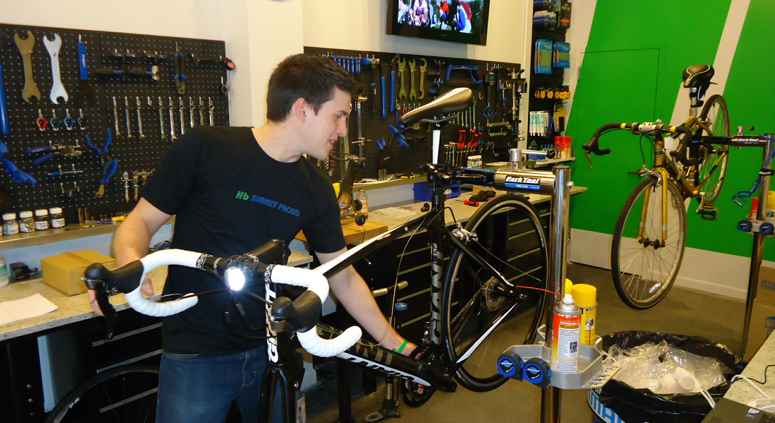 Bicycle mechanic and co-manager Sam Cooper of Hilltop Bicycles in Summit, New Jersey.